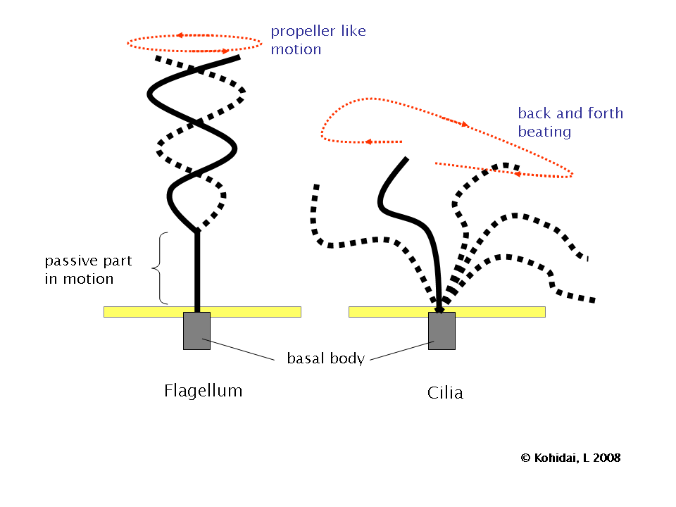 Flagellum - beating pattern of flagellum and cilia